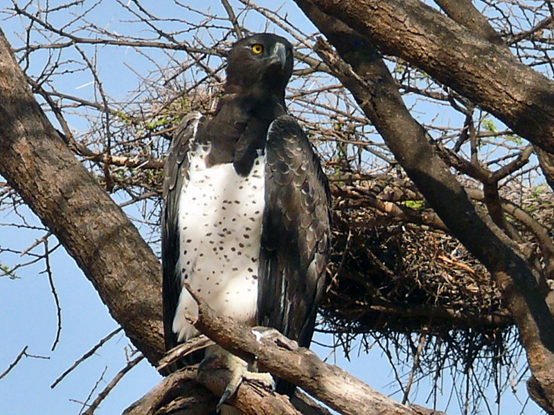 Martial Eagle in Masai Mara, Kenya.